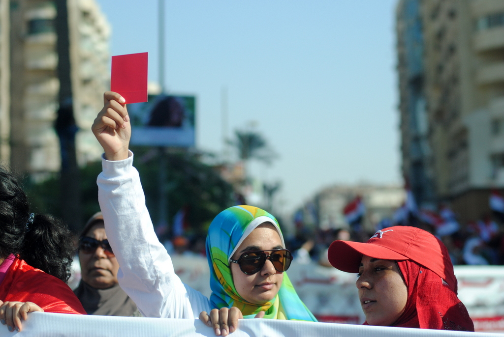 Protestors issues Morsi a red card